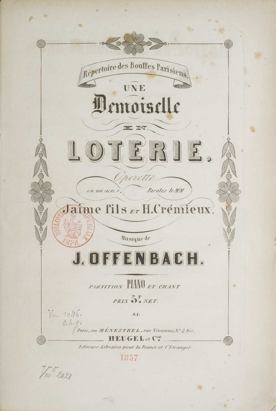 Une demoiselle en loterie, a 1857 operetta by Jacques Offenbach, title page of piano reduction published by Heugel